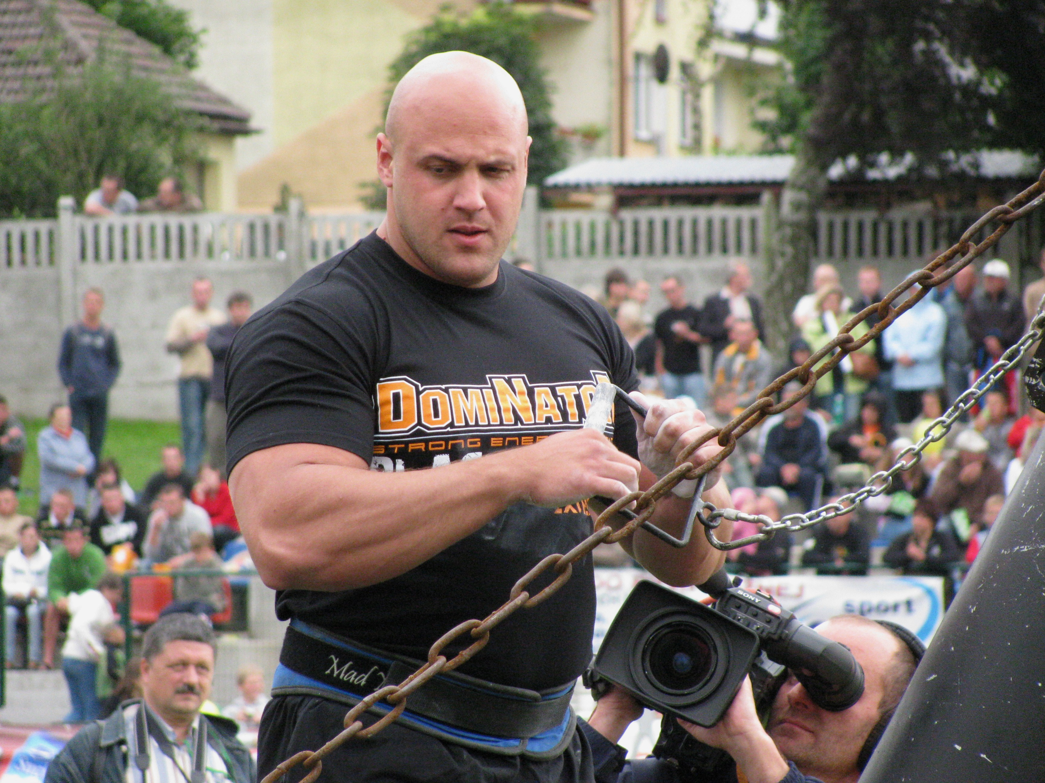 Tomasz Zocholl - a strength athlete from Poland